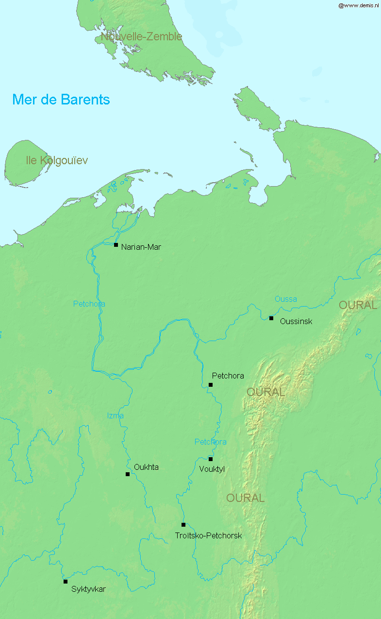 Map of Pechora River in Russia. Bounding box West 48°, South 61°, East 65°, North 72°. Center at